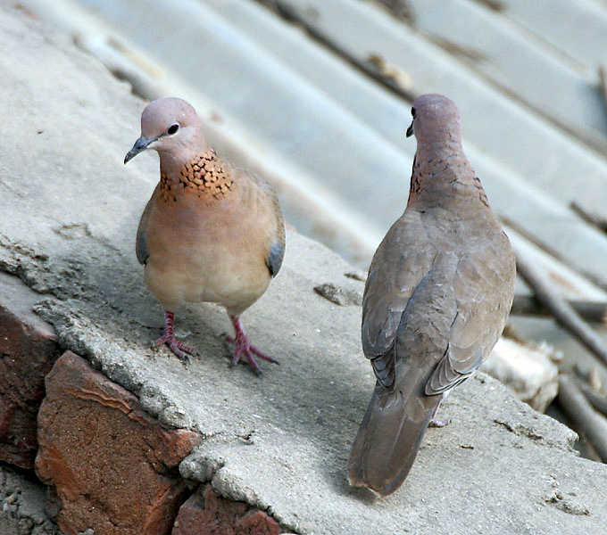 Laughing Dove Streptopelia senegalensis at Palwal in Faridabad District of Haryana, India.